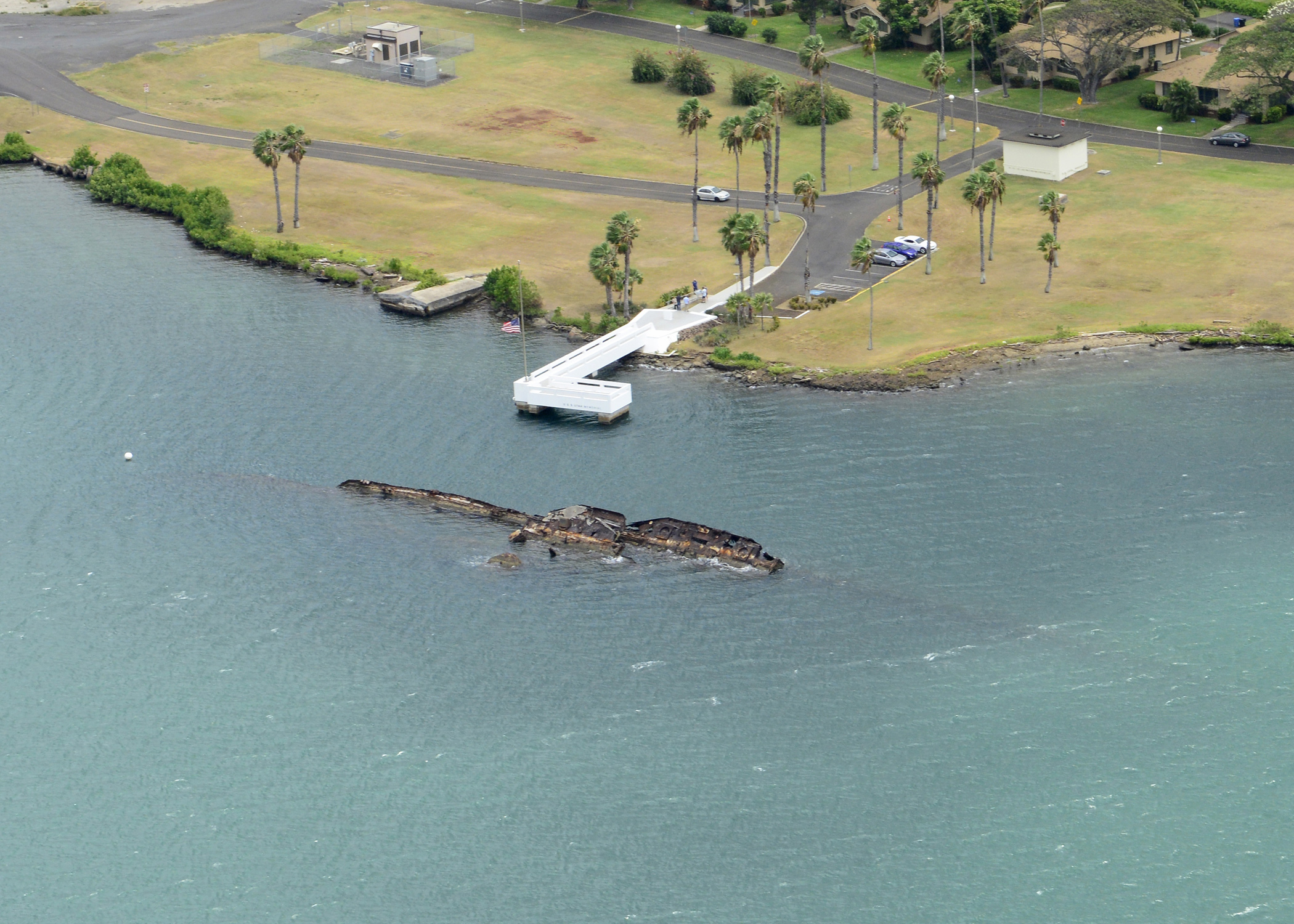 An aerial view of the USS Utah Memorial at Ford Island, Joint Base Pearl Harbor-Hickam, Hawaii (USA).